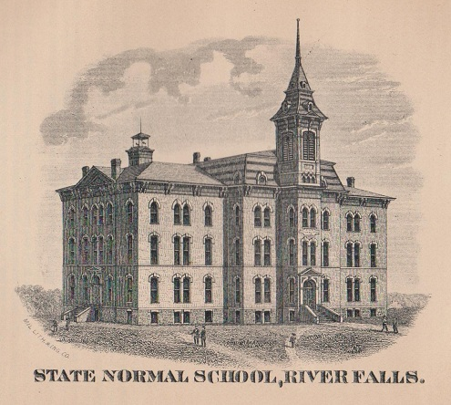 Illustration of the River Falls Normal Building, from the 1885 Wisconsin Blue Book.